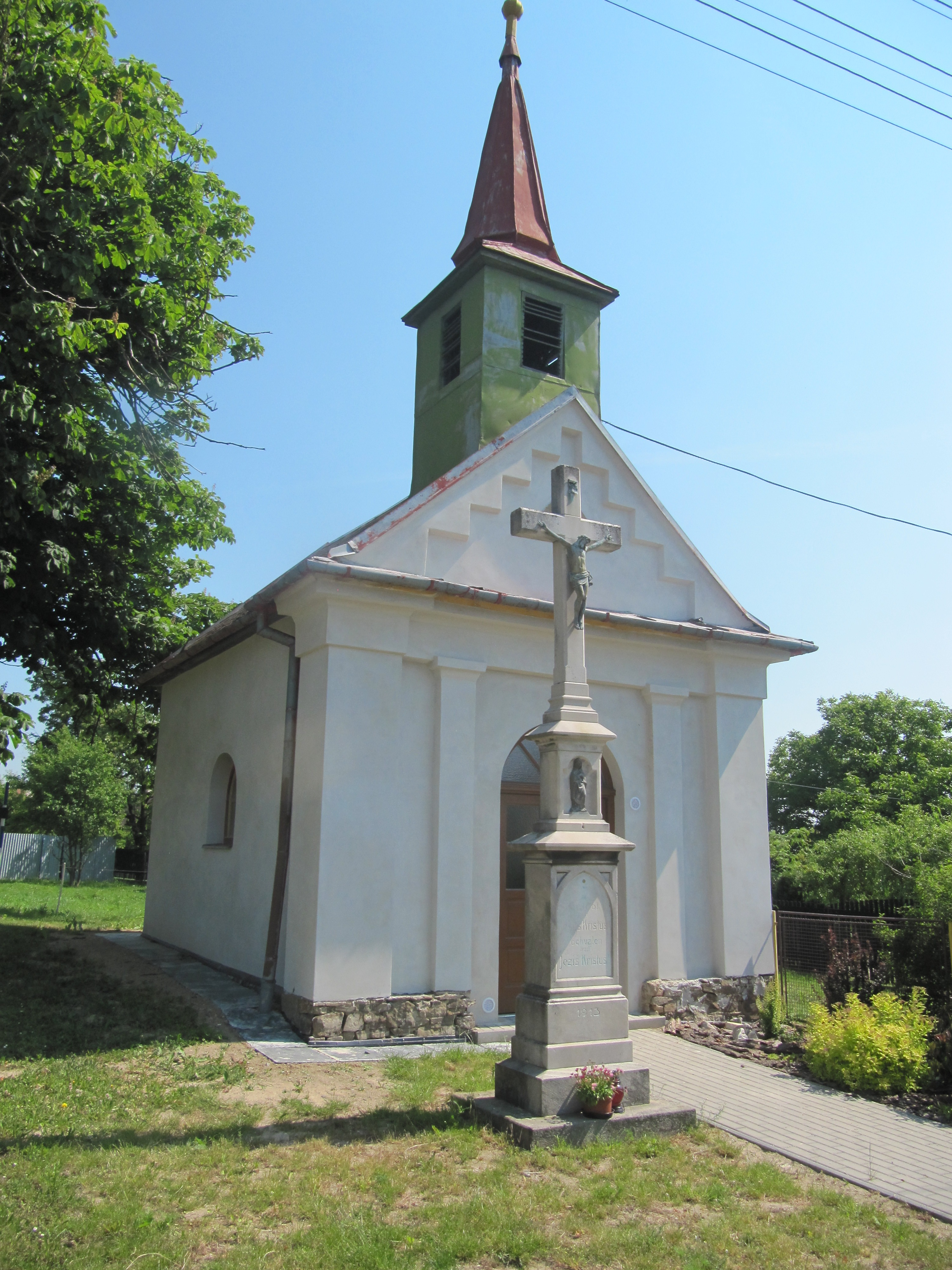 Březová, Opava District, Czech Republic, part Jančí.